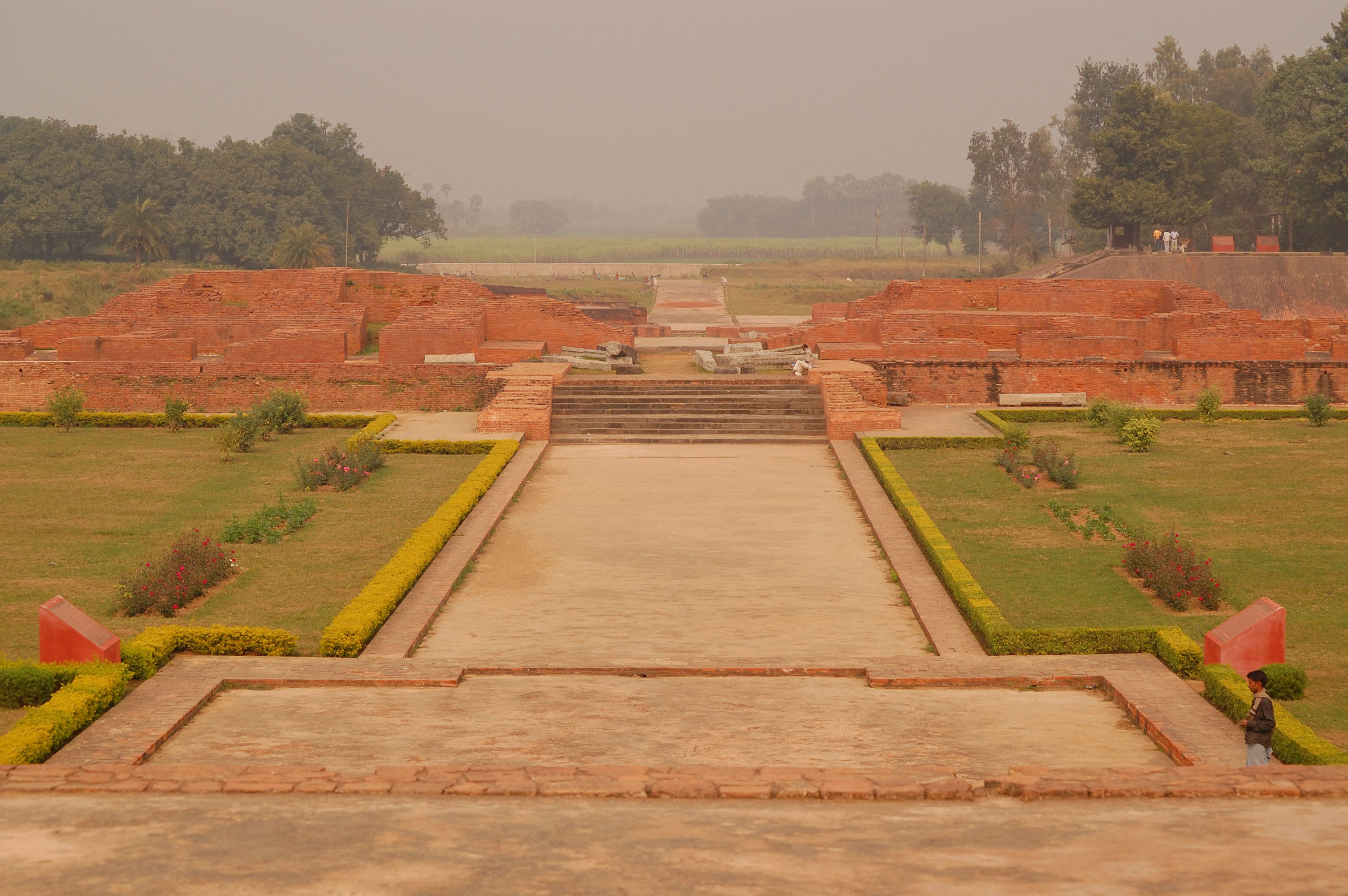 The main entrance of the vikramshila siting, from the stupa